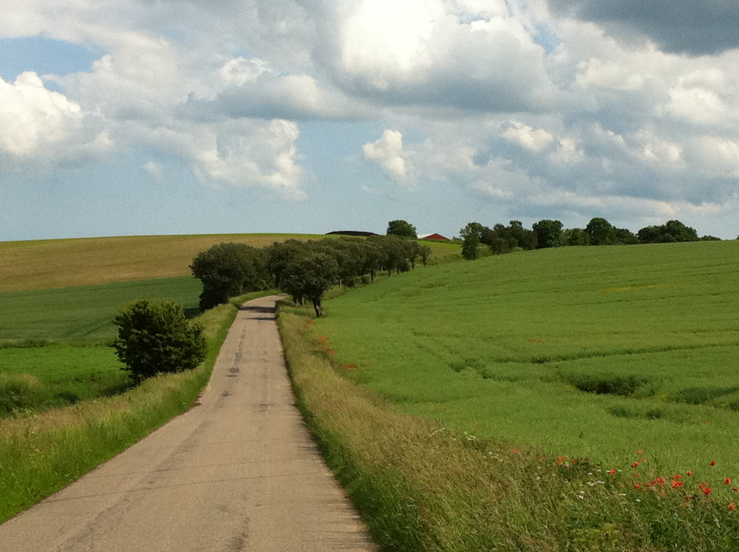 Randers-Aarhus Bicycle path